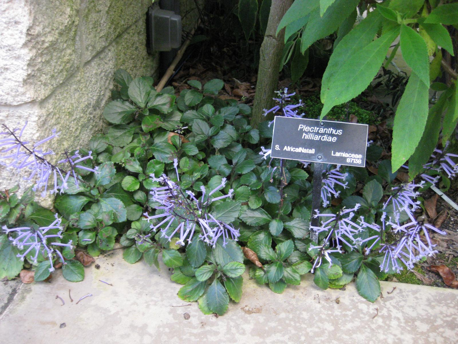 Photographed at Huntington Gardens (Los Angeles, California) in August